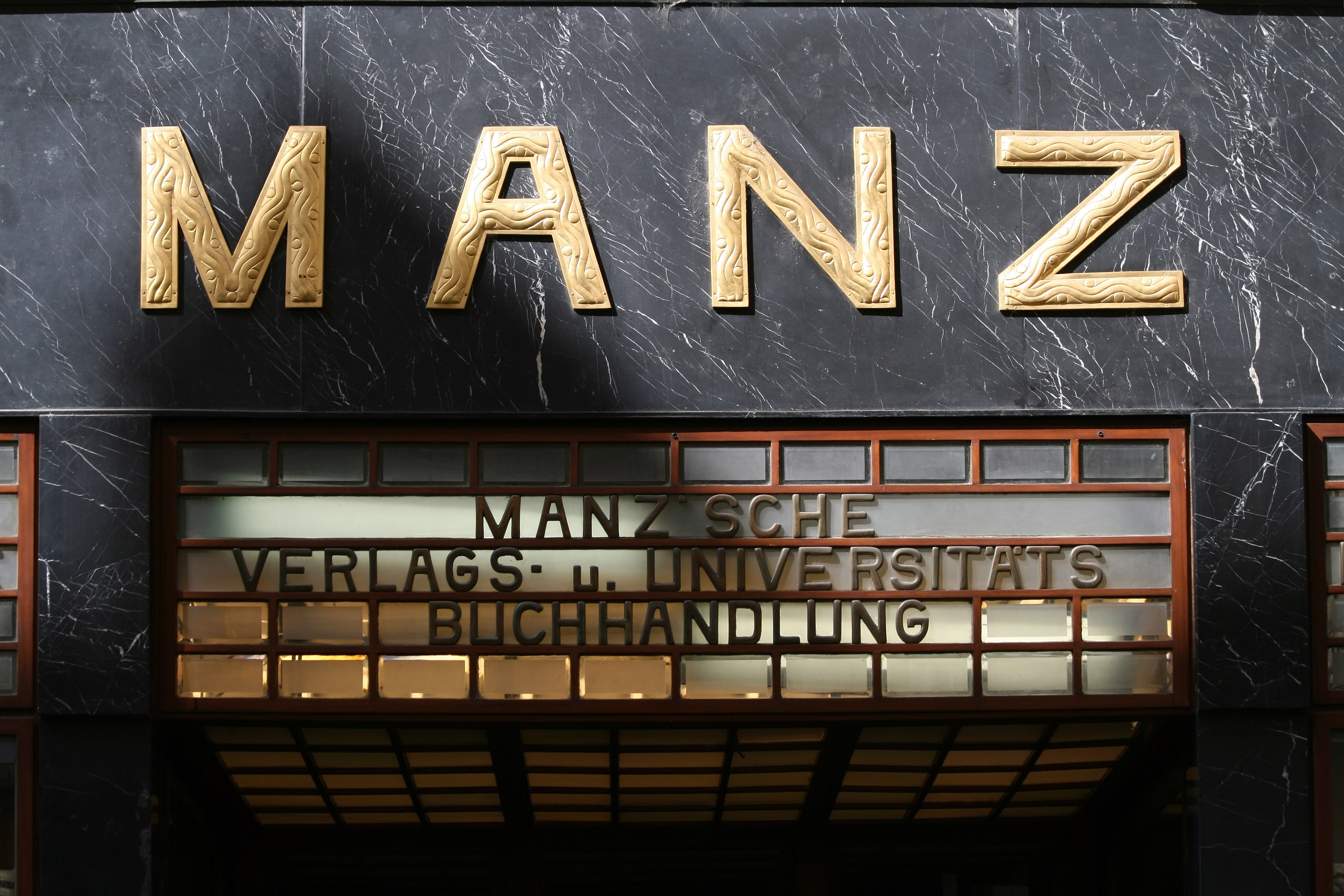 Adolf Loos' portal of the Manz'sche Verlags- und Universitätsbuchhandlung in Vienna, Austria.